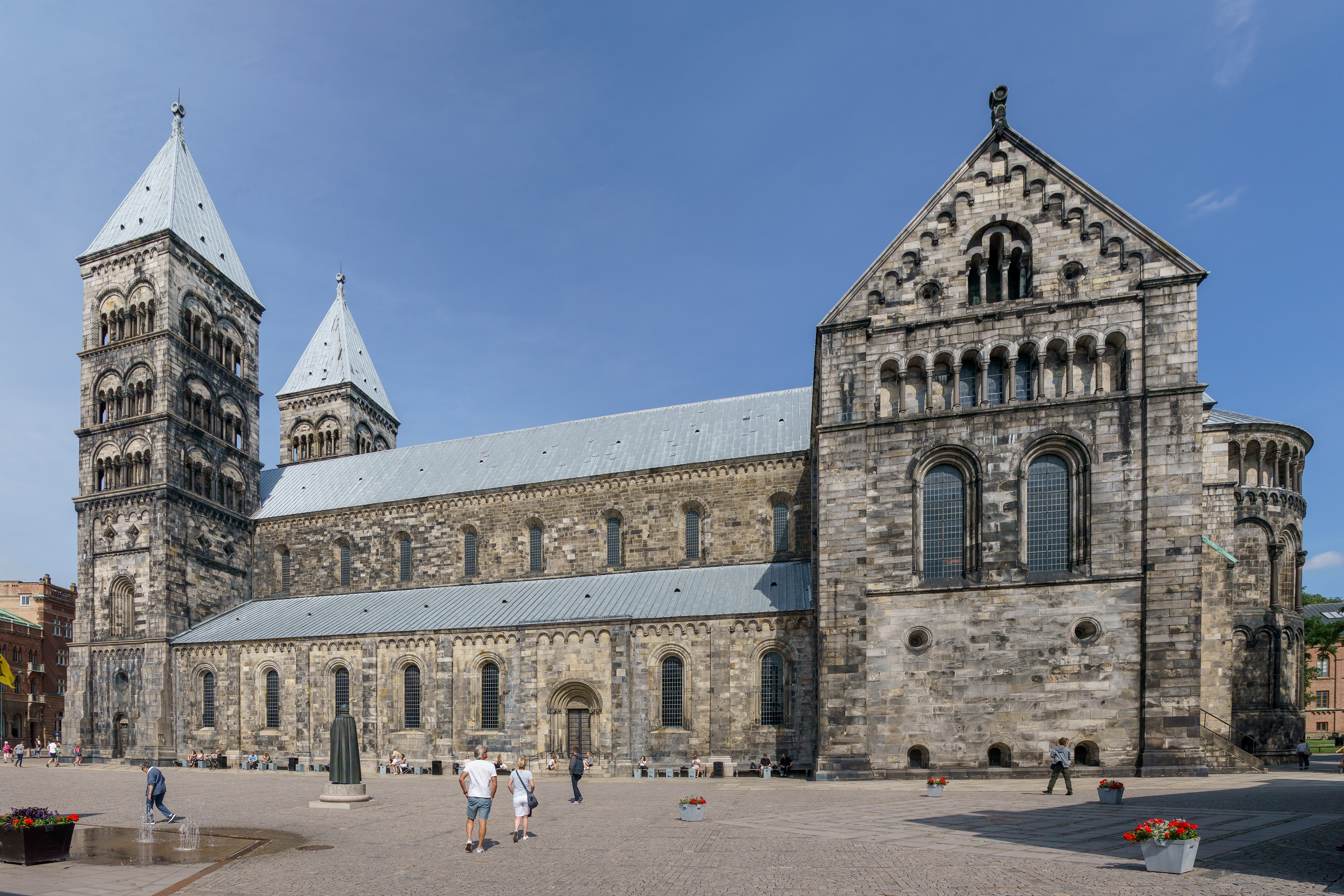 Lund Cathedral